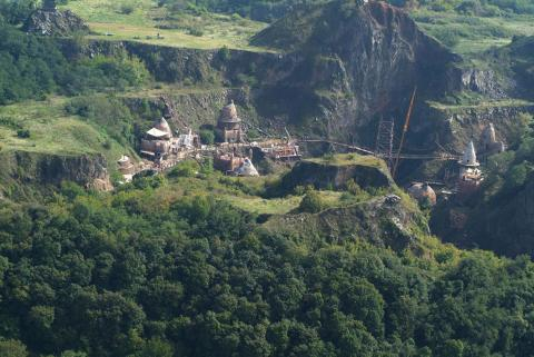 Ság-hegy -hill, Hungary, aerialphotography